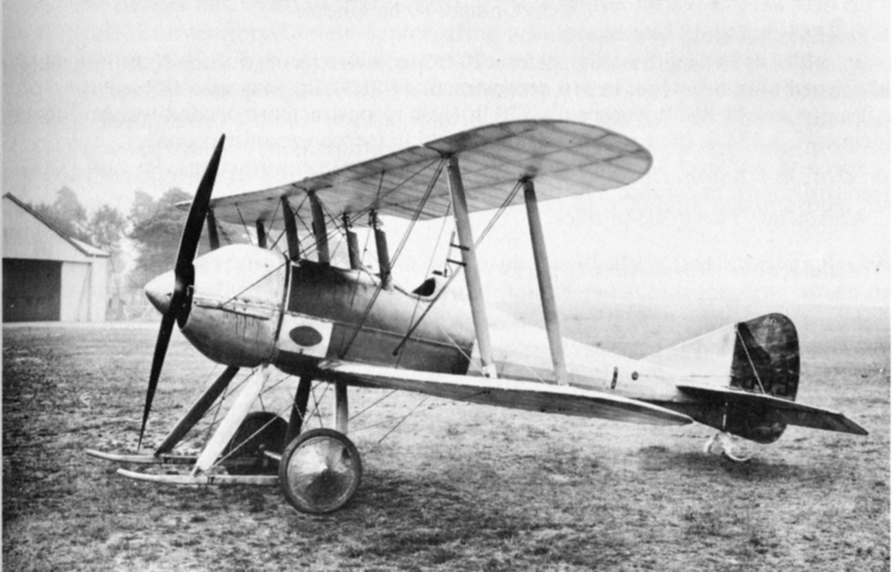 The Royal Aircraft S.E.2a single seat scout at Farnborough